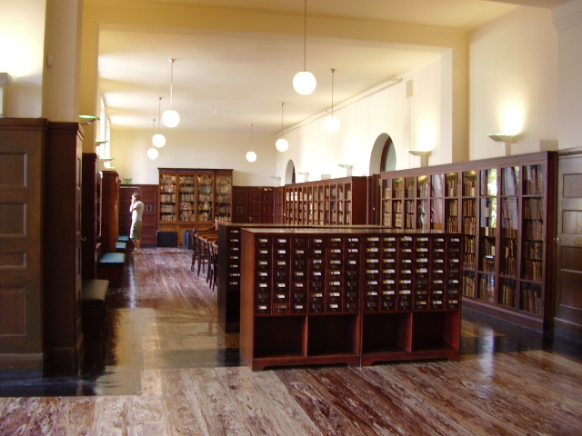 Nasjonalbiblioteket (National Library of Norway), Henrik Ibsens gate 110, Oslo. Built 1914-22 as the Oslo University Library. Architect: Holger Sinding-Larsen.